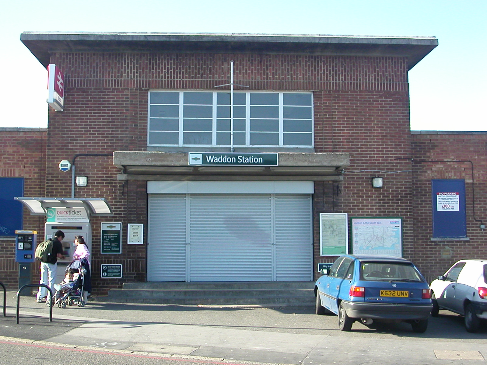 Main station building at Waddon railway station.